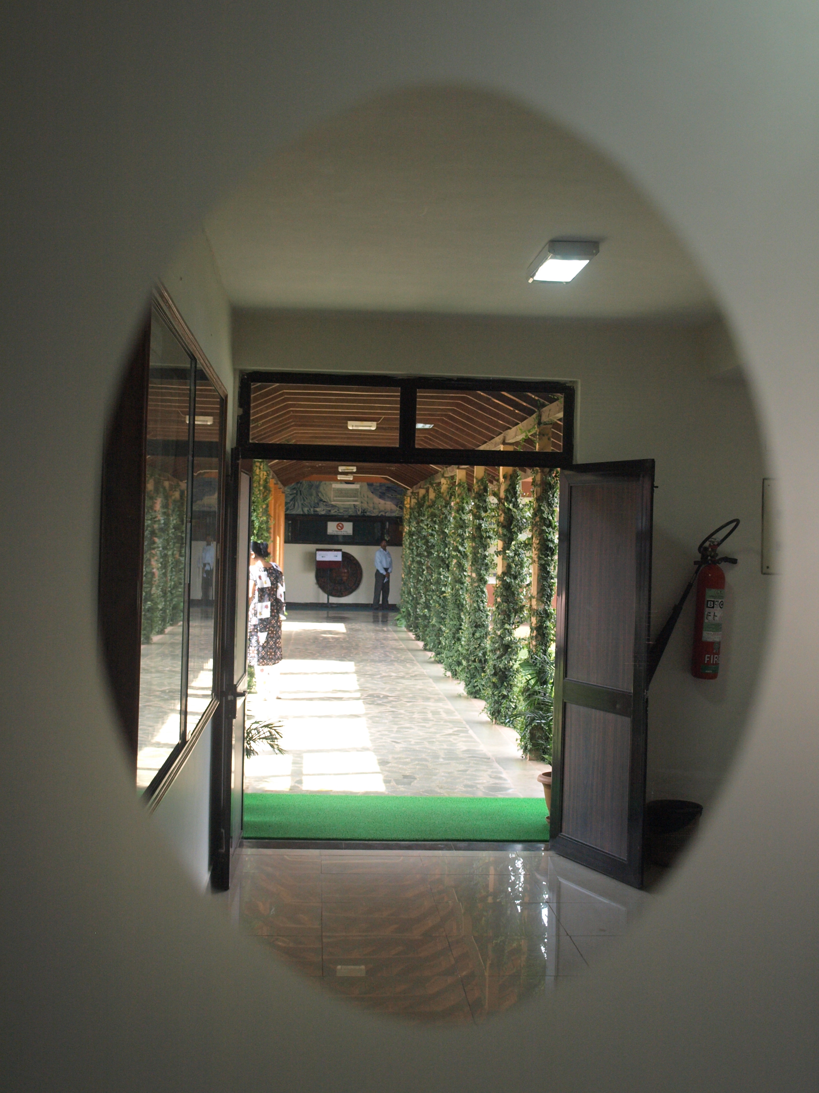 International Centre, Goa. Photo: Frederick Noronha